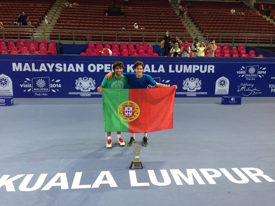 Trophy 250 ATP Kuala Lumpur